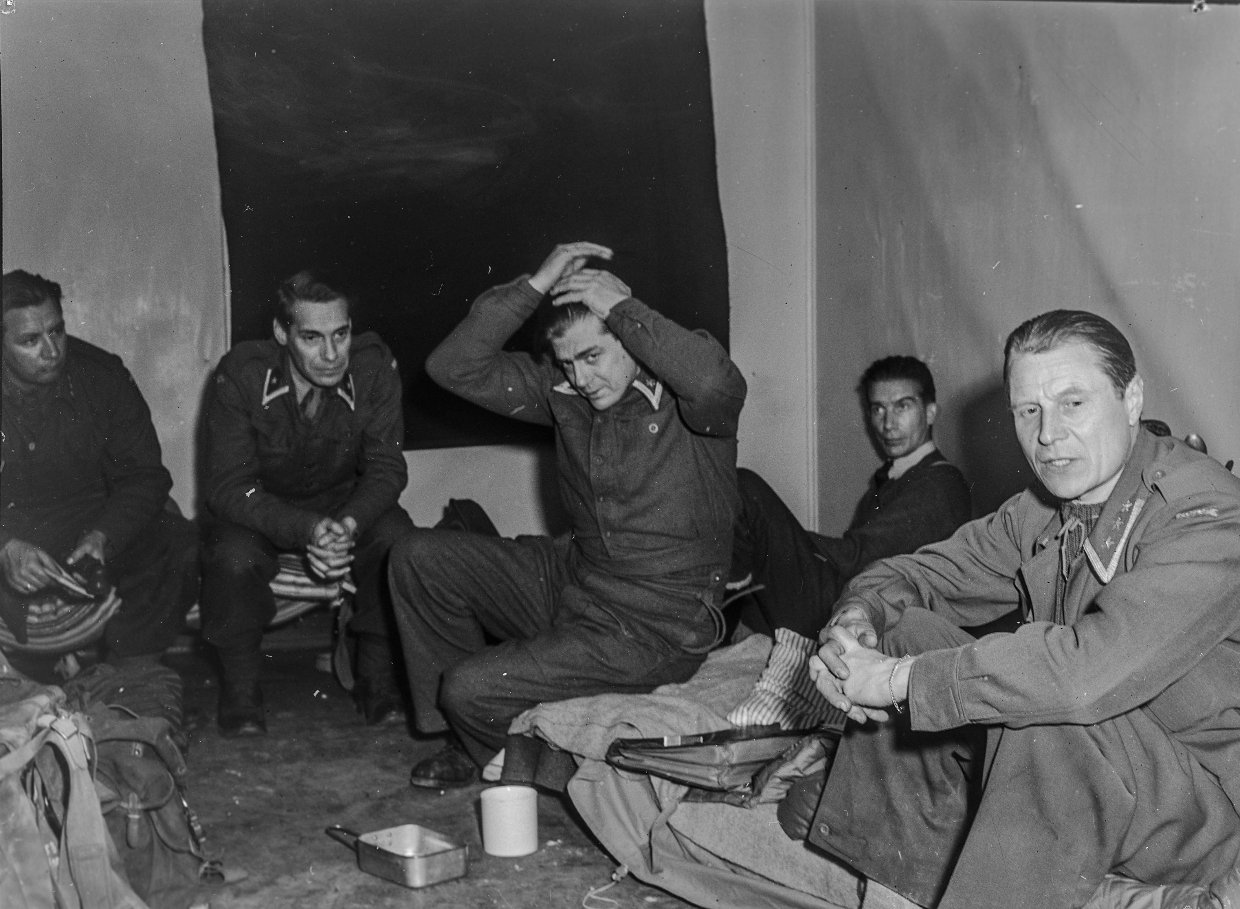 Photos from Flickr album "Evakueringen og frigjøringen av Finnmark" (The Evacuation and Liberation of Finnmark, 2015) ny Riksarkivet (National Archives of Norway). Towards the end of World War II, with Operation Nordlicht, the Germans used the scorched earth tactic in Finnmark and northern Troms to halt the Red Army. As a consequence of this, few houses survived the war, and a large part of the population was forcefully evacuated further south (Tromsø was crowded), but many people avoided evacuation by hiding in caves and mountain huts and waited until the Germans were gone, then inspected their burned homes. There were 11,000 houses, 4,700 cow sheds, 106 schools, 27 churches, and 21 hospitals burned. There were 22,000 communications lines destroyed, roads were blown up, boats destroyed, animals killed, and 1,000 children separated from their parents. However, after taking the town of Kirkenes on 25 October 1944 (as the first town in Norway), the Red Army did not attempt further offensives in Norway. The town was handed over to Norway as the war ended. When war was over, more than 70,000 people were left homeless in Finnmark. The government imposed a temporary ban on residents returning to Finnmark because of the danger of landmines. The ban lasted until the summer of 1945 when evacuees were told that they could finally return home.